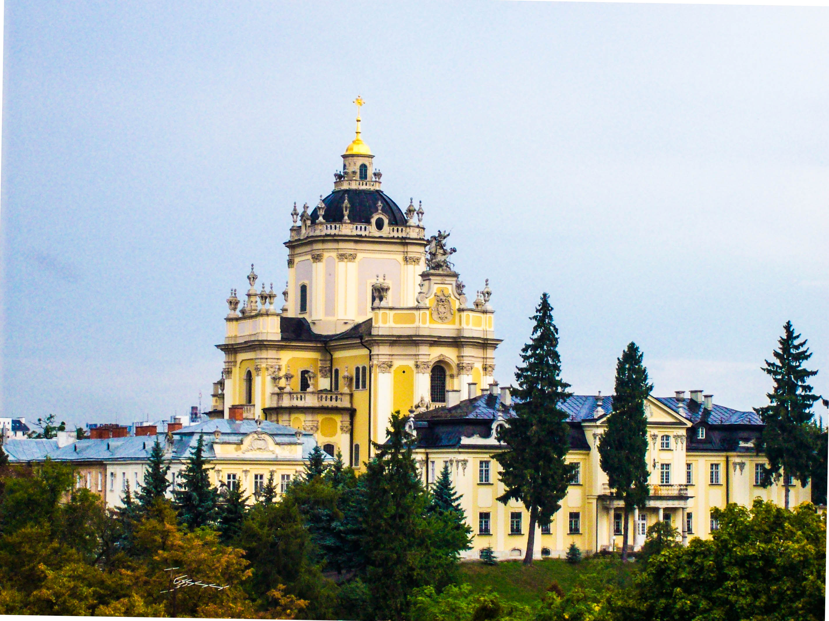 Cathedral of Saint George, Lviv